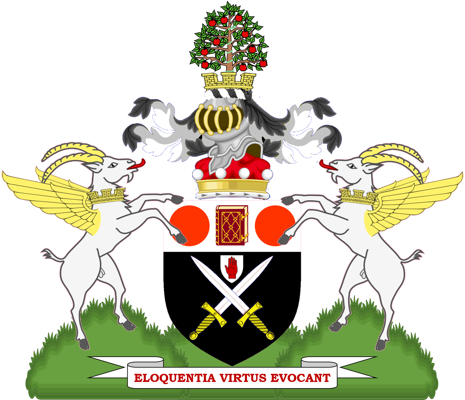 The armorial achievement of The Lord Silsoe